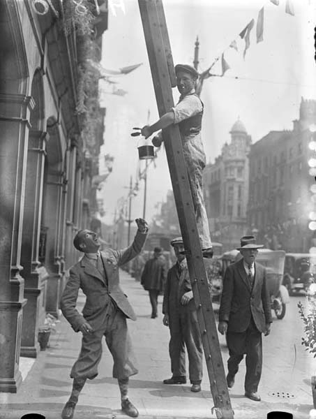 A great shot taken outside 31 Dame Street, Dublin. Just one tiny glimpse of the city wide effort that was put into sprucing up Dublin for the Eucharistic Congress of 1932, overseen in this instance by a very dapper man in plus fours and Argyle socks. Date: June 1932 NLI Ref.: IND_H_1870